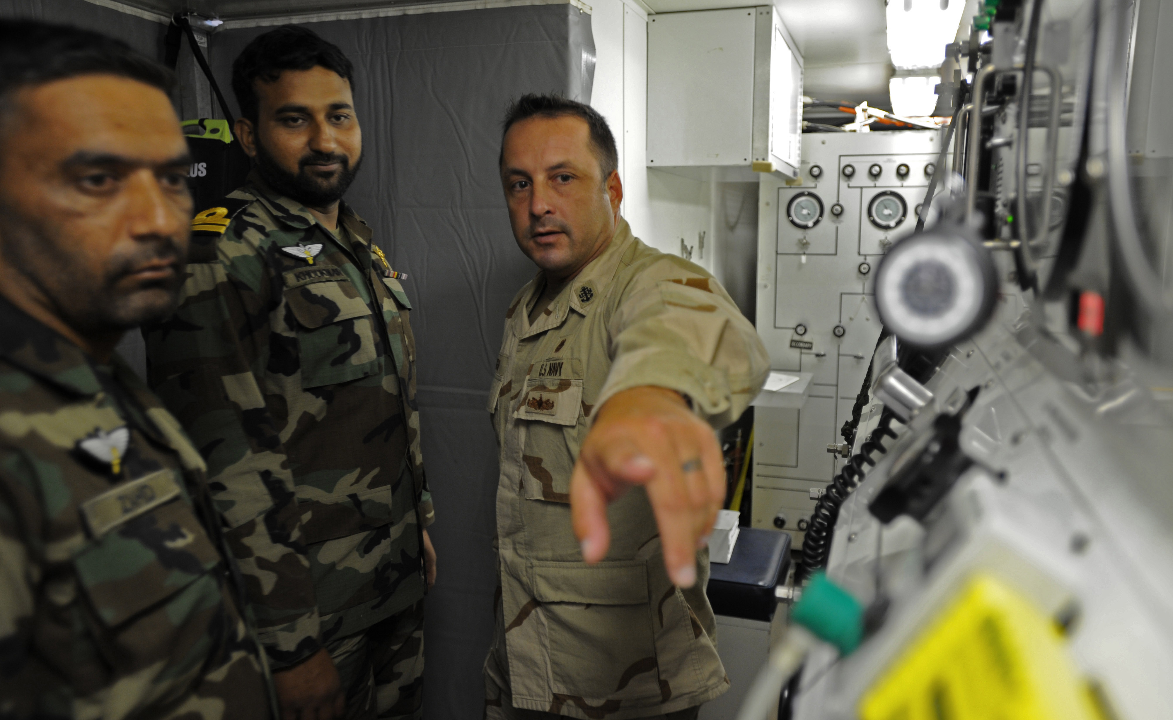 NAVAL SUPPORT ACTIVITY, Bahrain (June 12, 2011) Chief Navy Diver Aaron Knight, assigned to Commander Task Group (CTG) 56.1, speaks with Pakistani divers about the recompression chamber used at CTG 56.1 as part of a diving and salvage exchange. The divers conducted scuba operations, anti-terrorism force-protection training dives, and practiced underwater search techniques, and diving fundamentals during the exchange. CTG 56.1 provides maritime security operations and theater security cooperation efforts in the U.S. 5th Fleet area of responsibility. (U.S. Navy photo by Mass Communication Specialist 3rd Class Martin L. Carey/Released)